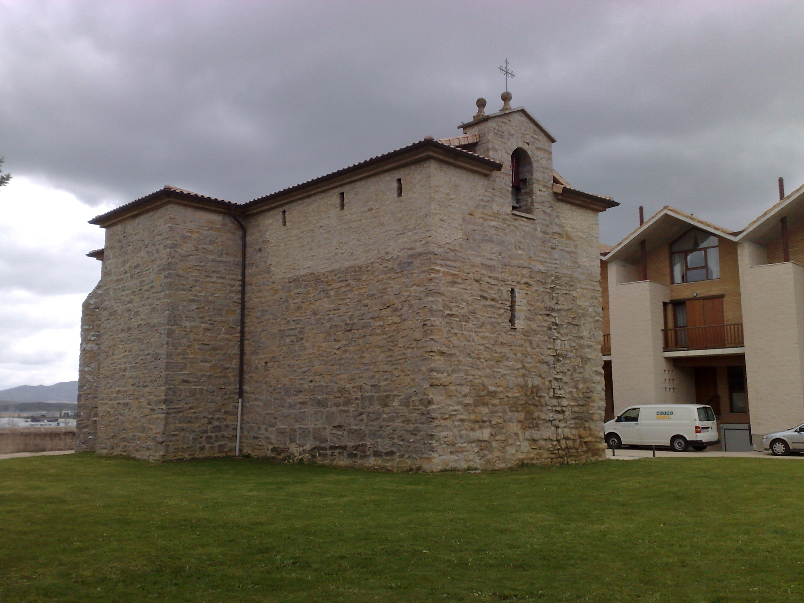 Church of Saint Kosme and Damian in Cordobilla, surrounded by new developments. Galar, Navarre, Basque Country.